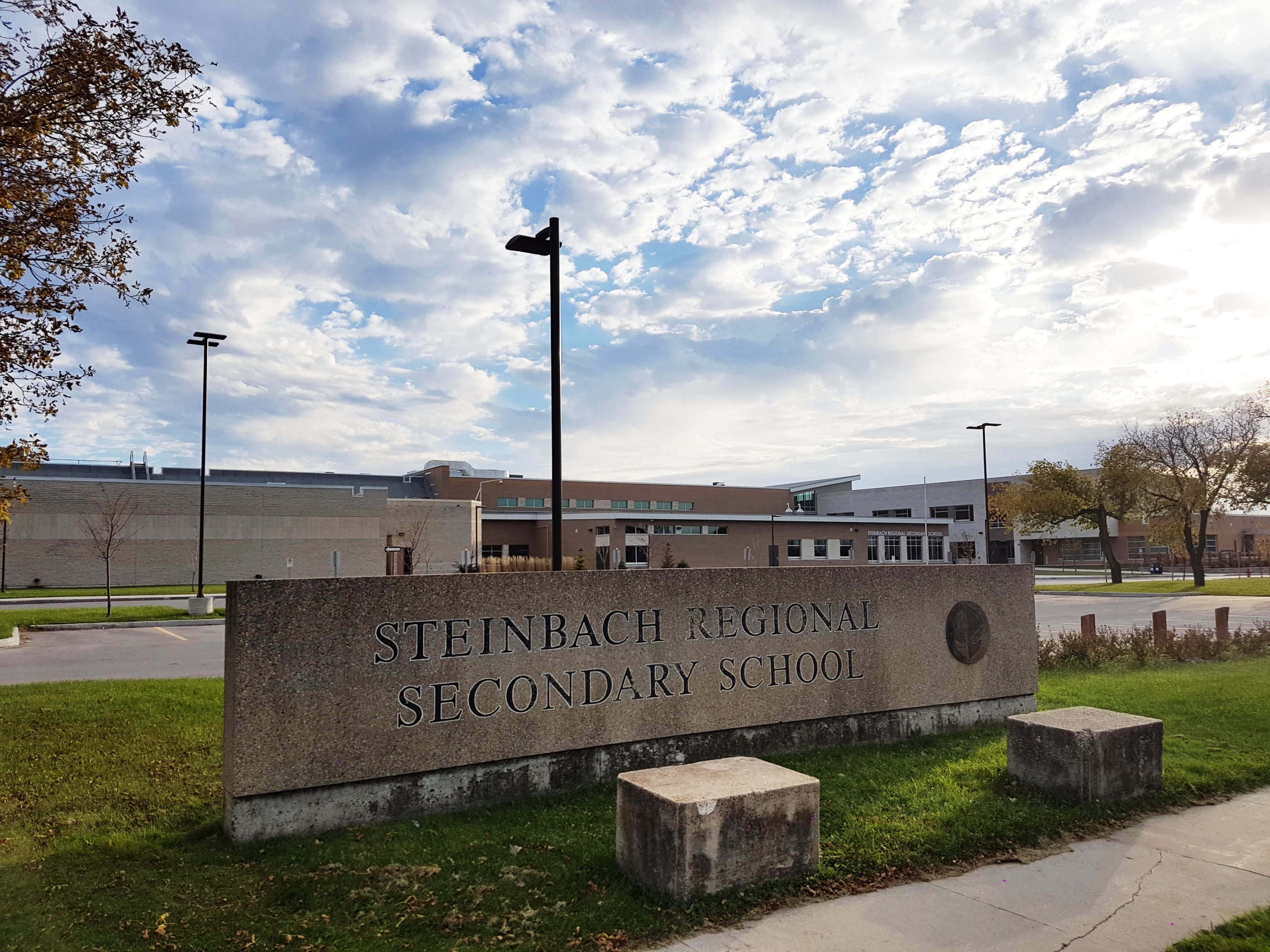 A view of the SRSS sign and the new structure for the SRSS completed in 2013. The original building continues to operate with the new component, thus doubling its size.